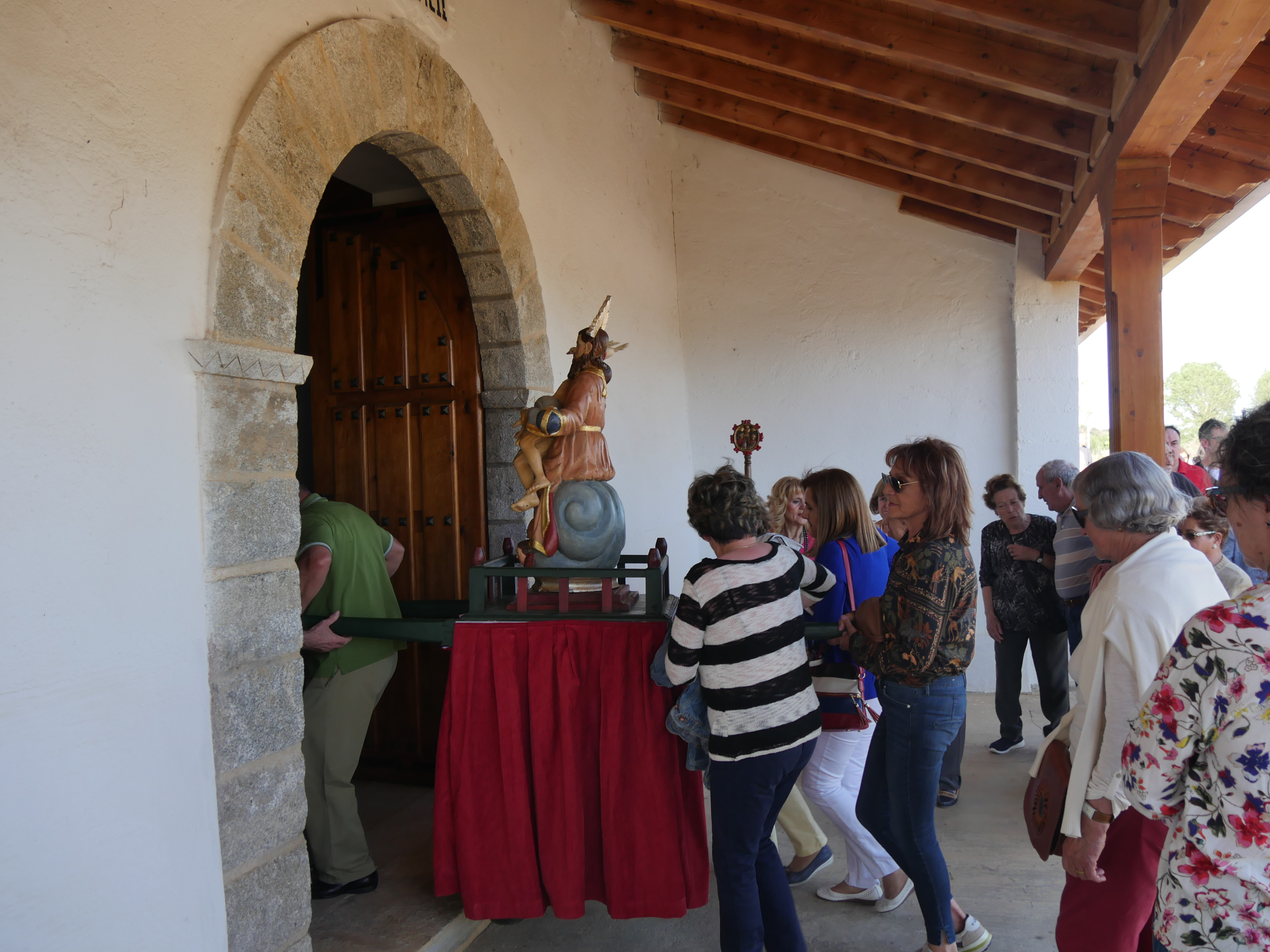 Trinidad camarzana